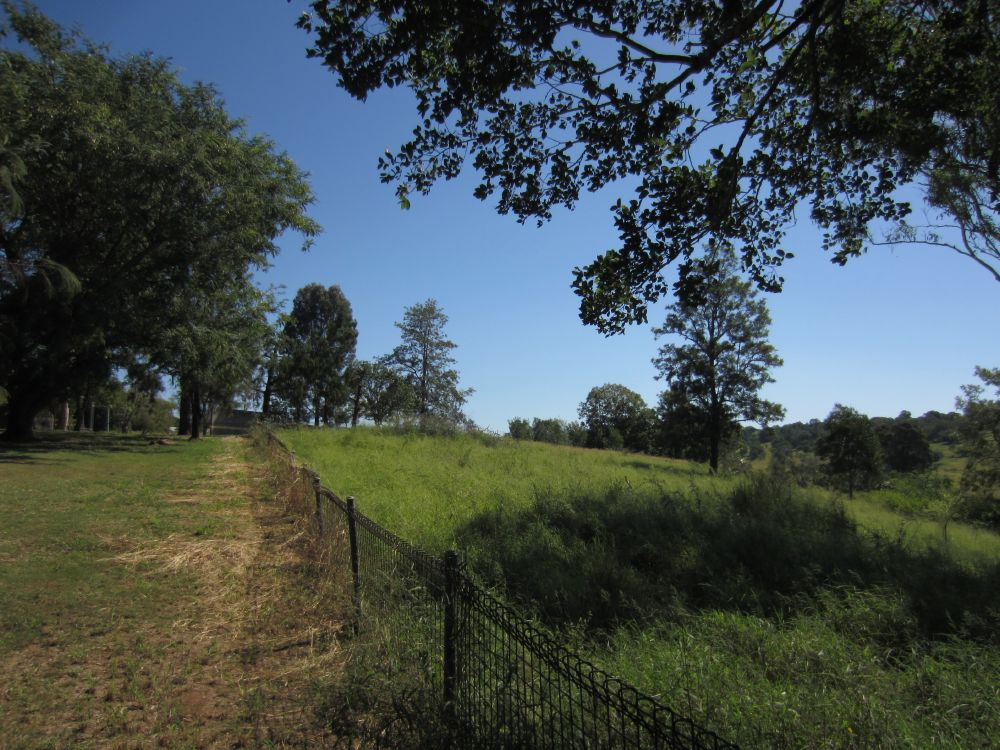 Horse paddock (right) and school grounds (left), from NE (2015)